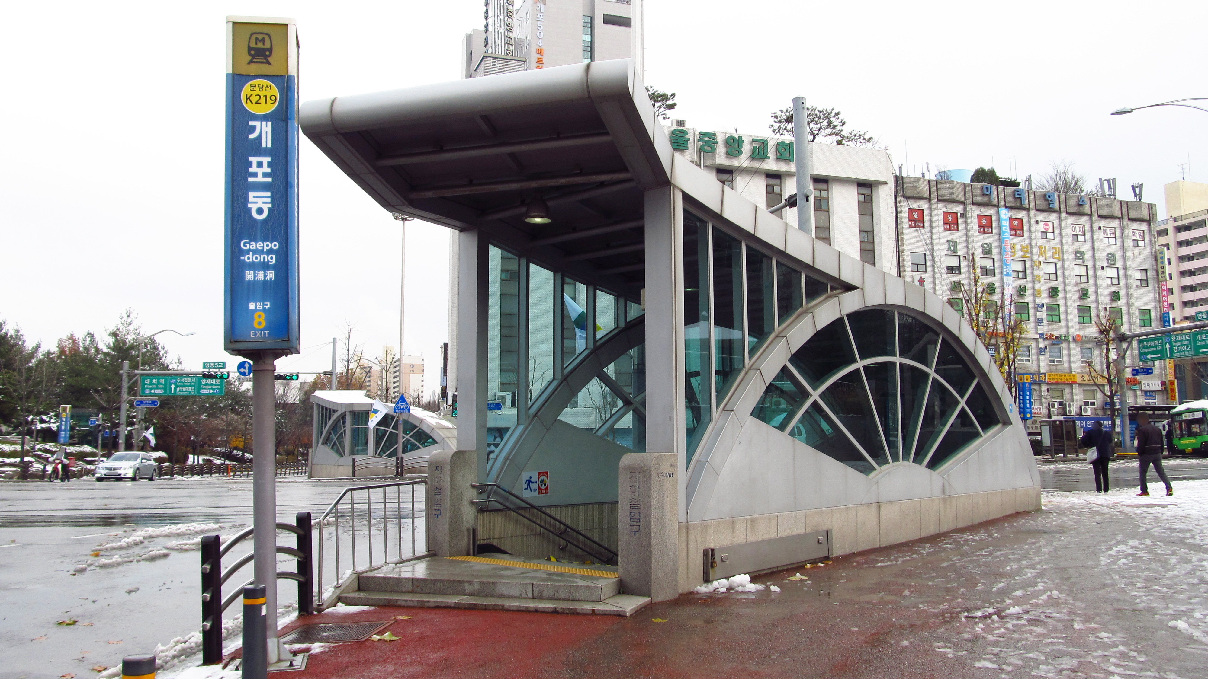 The no.8 entrance to Gaepo-dong Station on Bundang Line in Gangnam-gu, Seoul, Republic of Korea(South Korea)